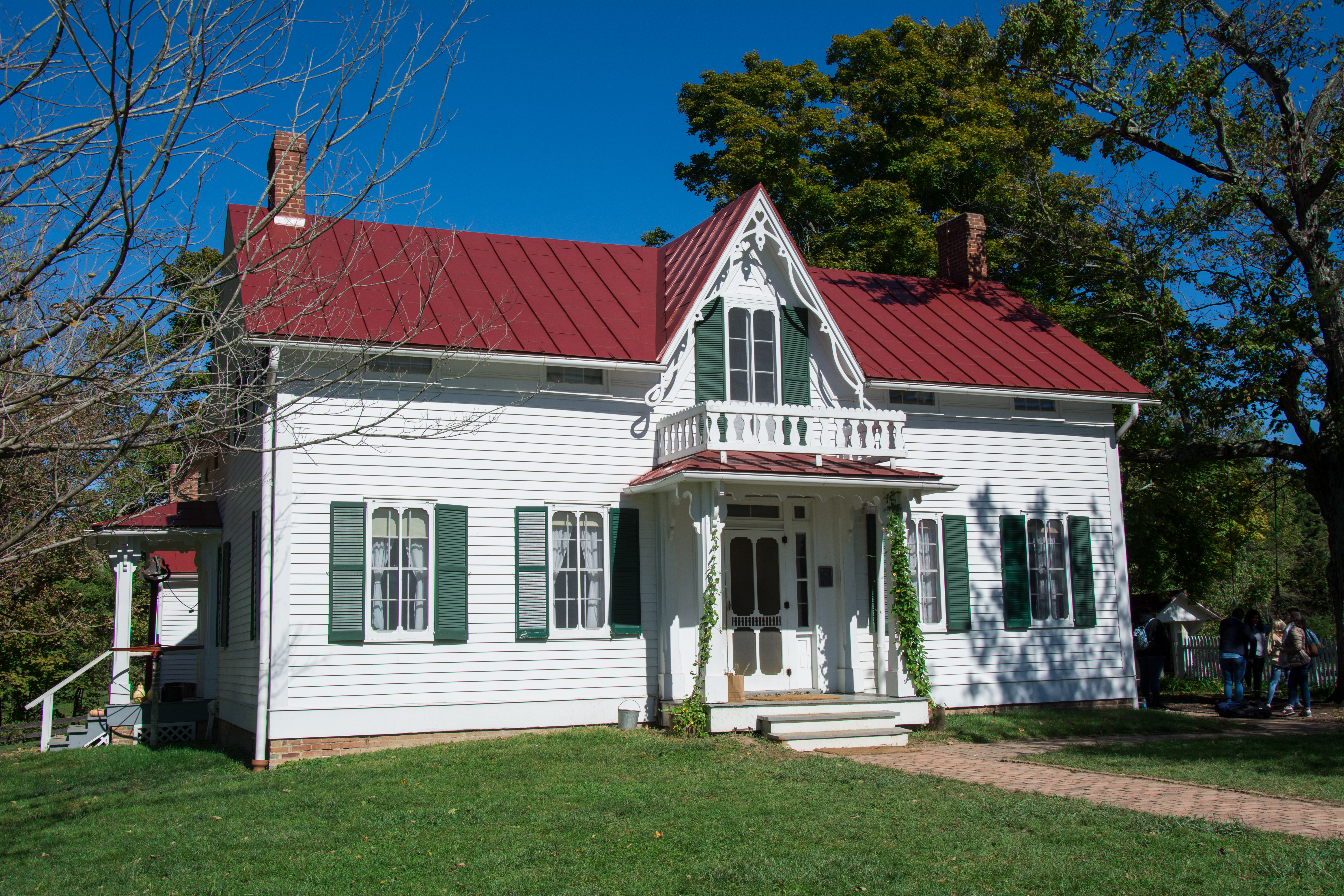 Slate Run Living Historical Farm, Lithopolis, OH.